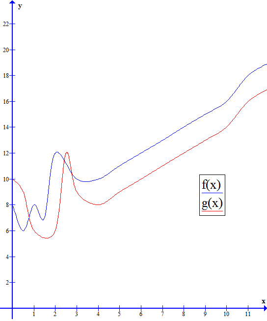 Example of Big Ω Notation, f(x) = Ω(g(x))